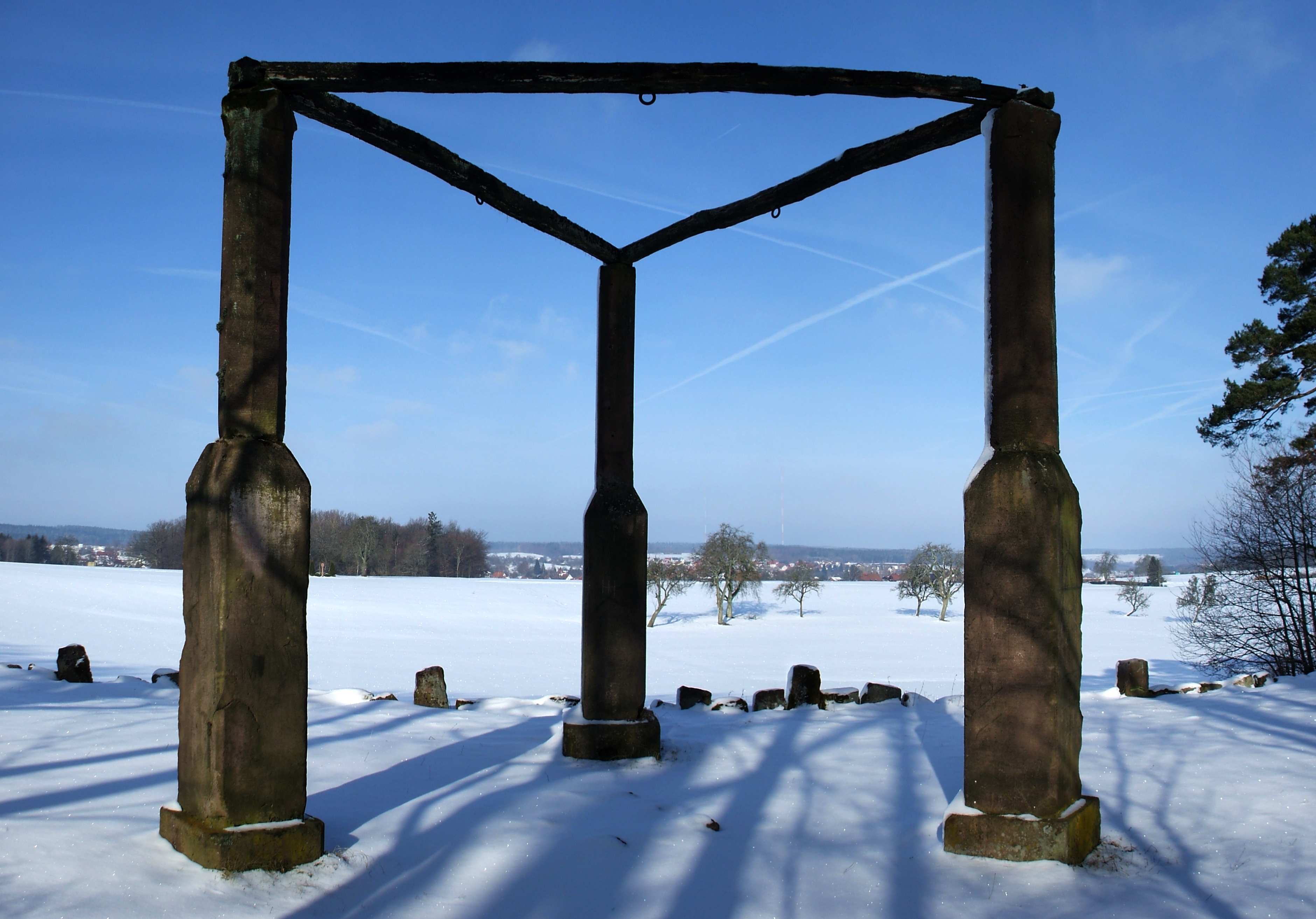 Gibbet of Mudau. In the background: Mudau and the long-wave transmitters in Donebach